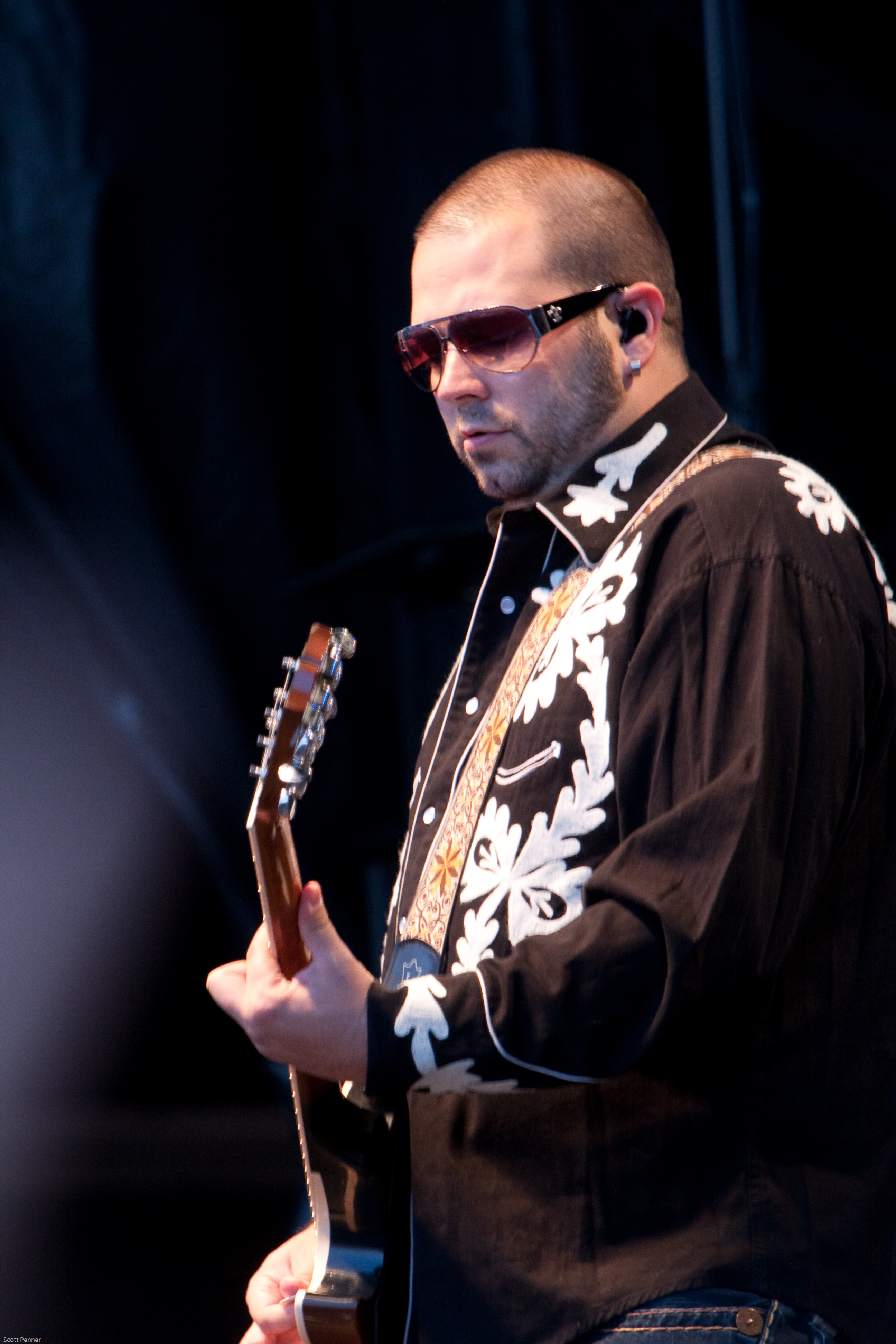 Chad Taylor of The Gracious Few playing with the band Live in Ottowa in July 2009.